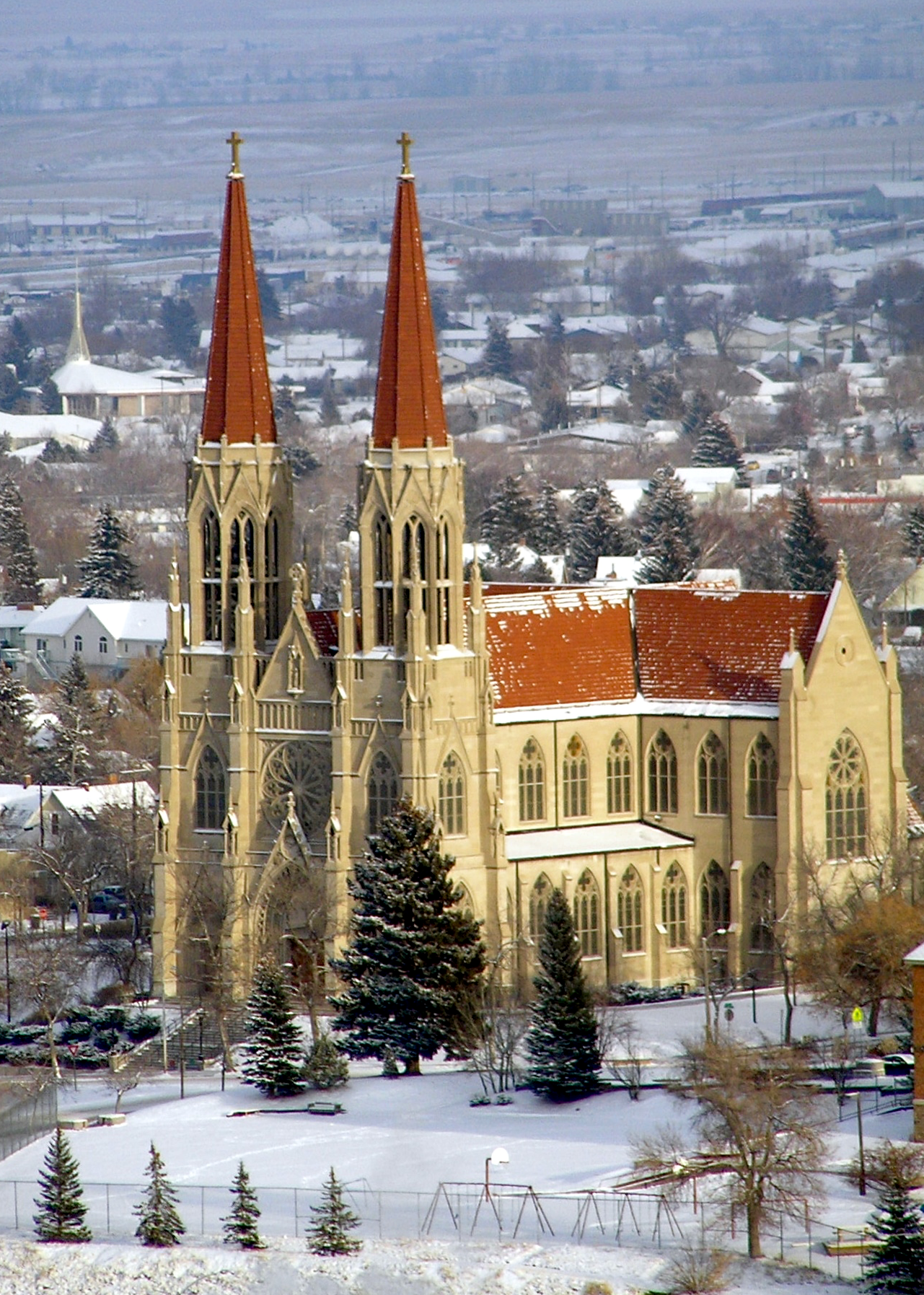 Cathedral of St. Helena, cropped.